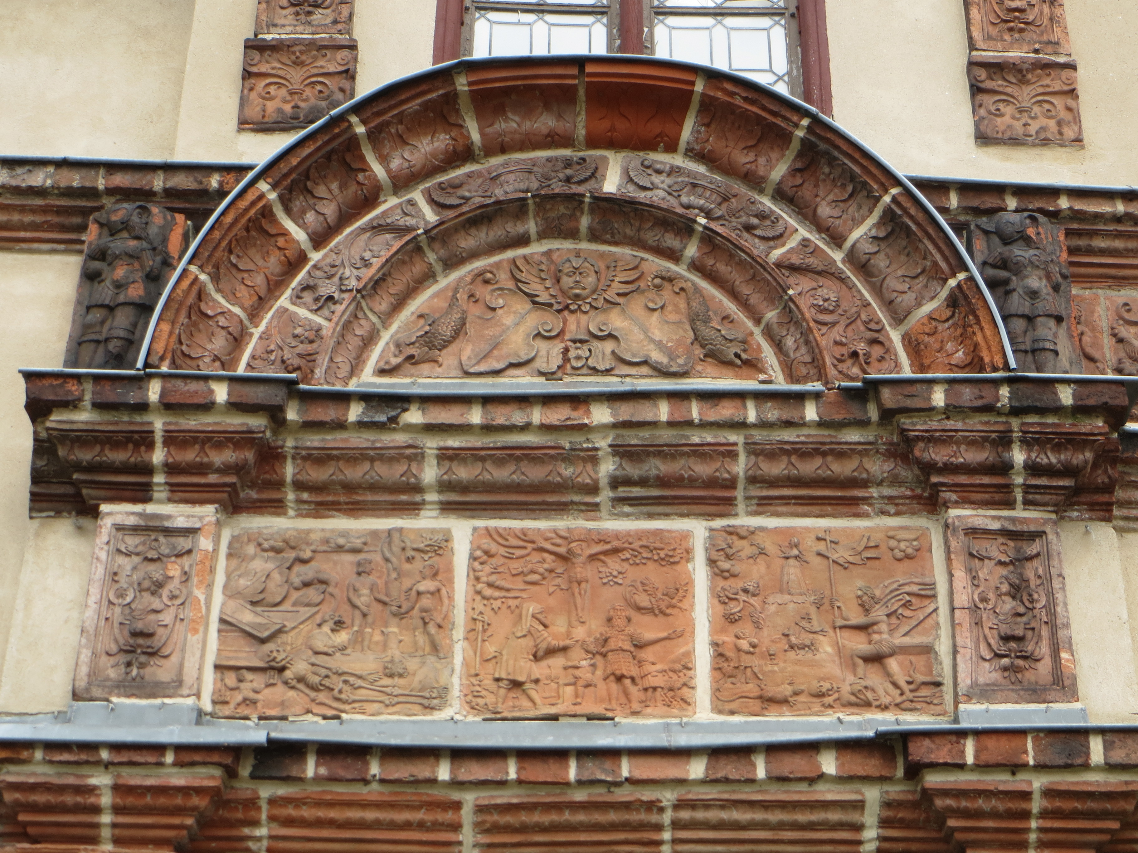 Gadebusch castle